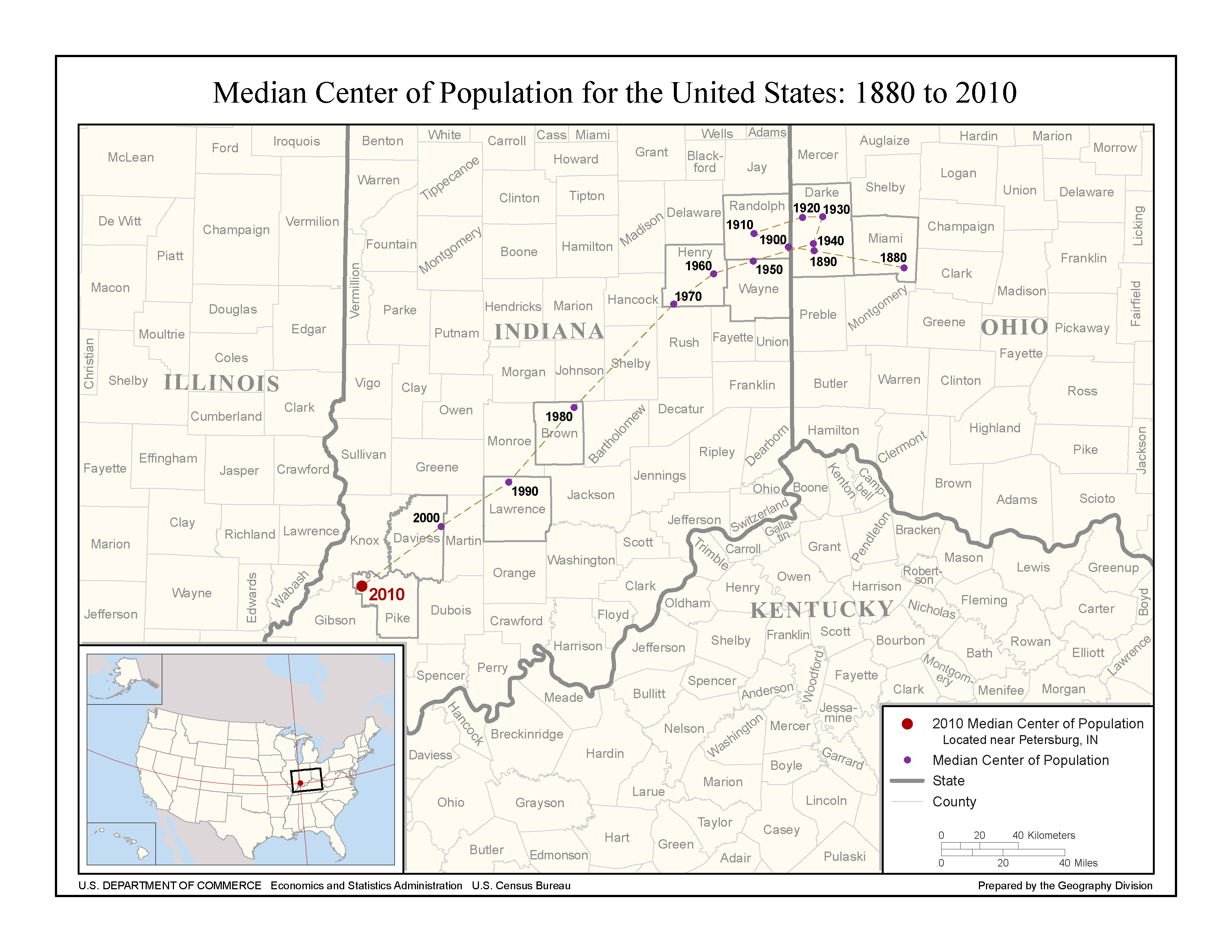 Median centers of population for the United States, 1880-2010